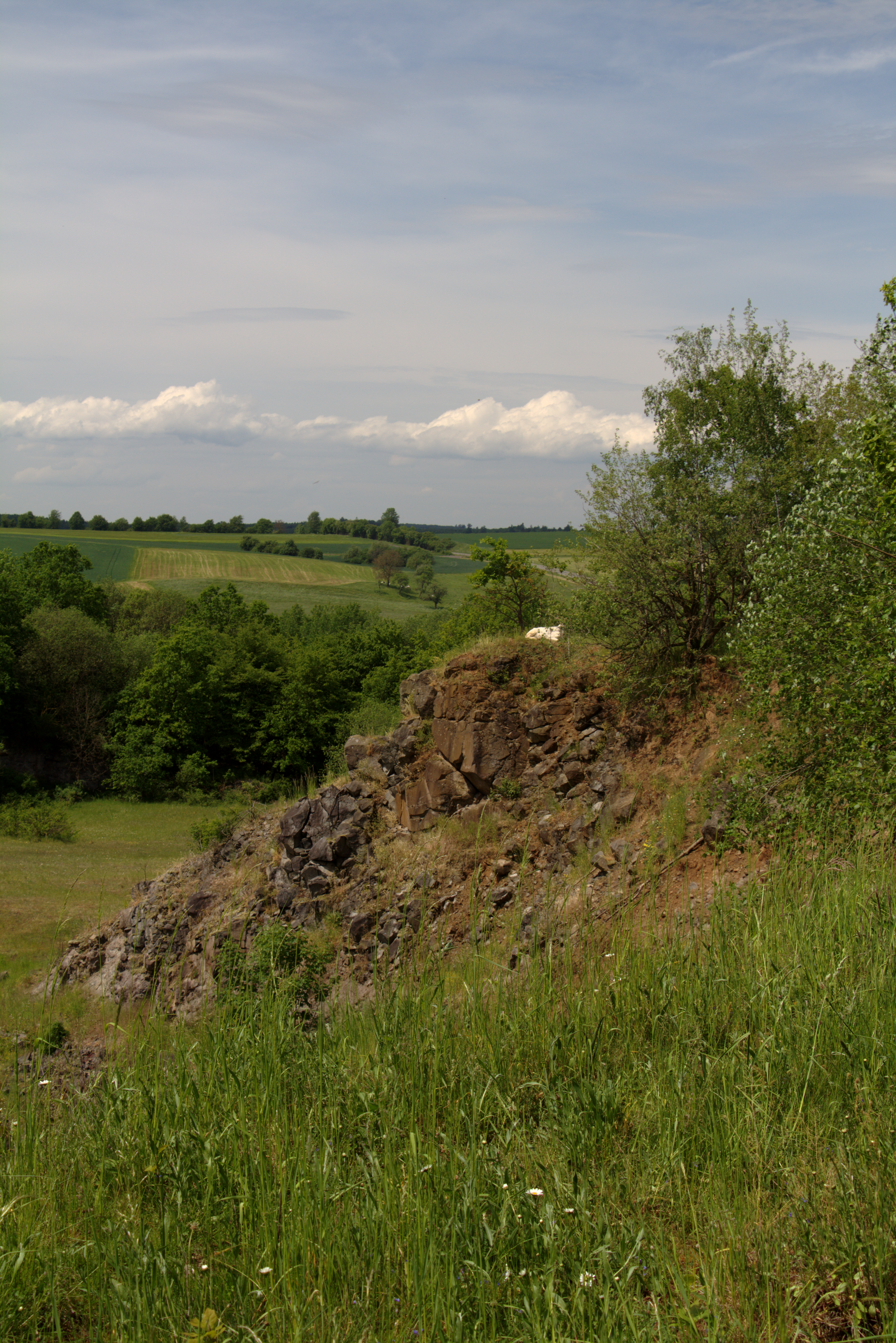 Basaltsteinbruch near Glashuetten, Hirzenhain, Hesse, Germany